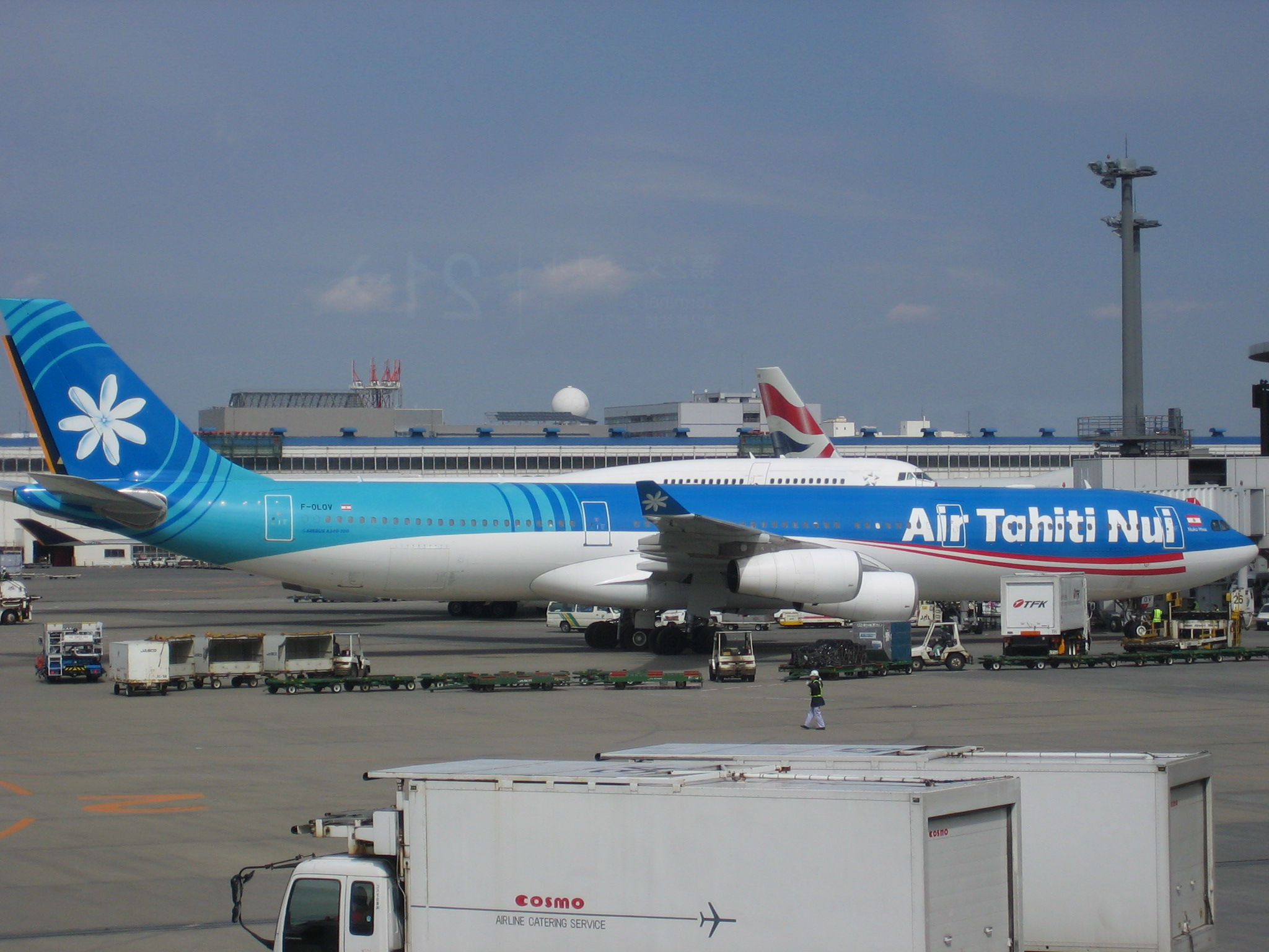 Airbus A340-300 Nuku Hiva (F-OLOV) of Air Tahiti Nui. Photographed at Narita International Airport Terminal 1.Air Tahiti Nui A340